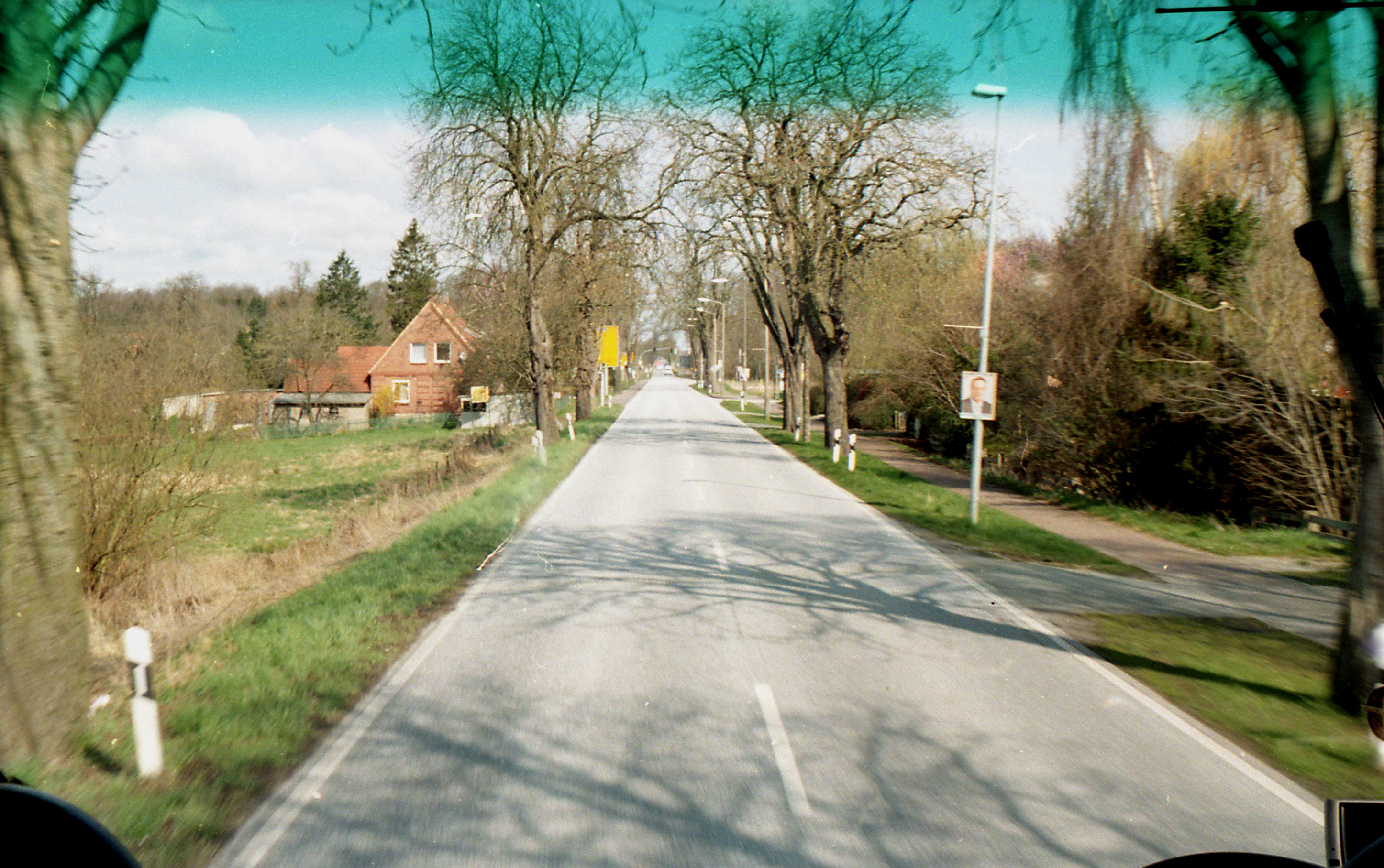 On the avenue Deutsche Alleenstraße in Mecklenburg-Vorpommern, Germany